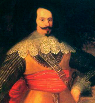 The subject is Luis de Benavides Carrillo, governor of the Spanish Netherlands. The portrait was painted in Italy in 1636. The author is unknown.